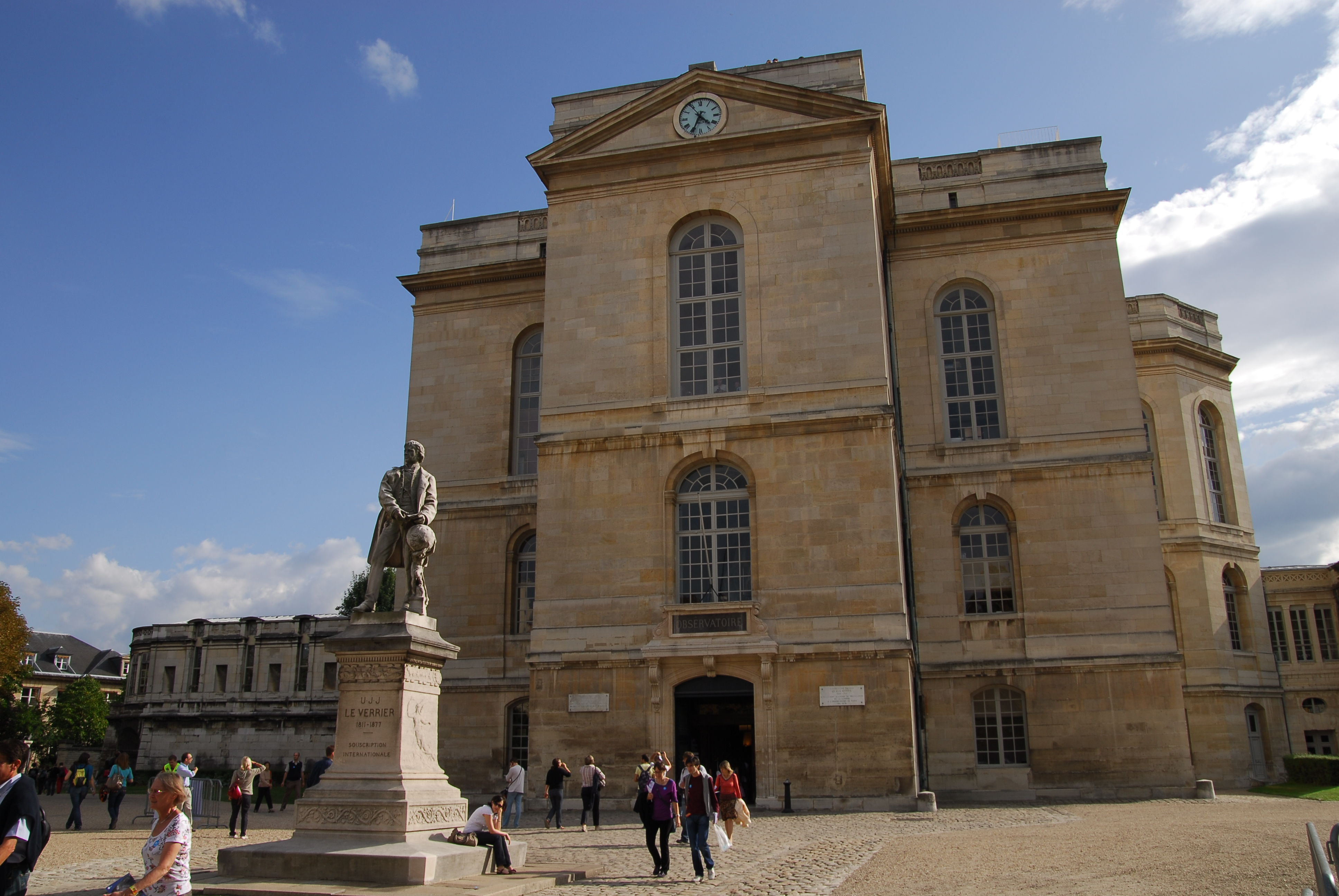 Paris Observatory, Paris, France.